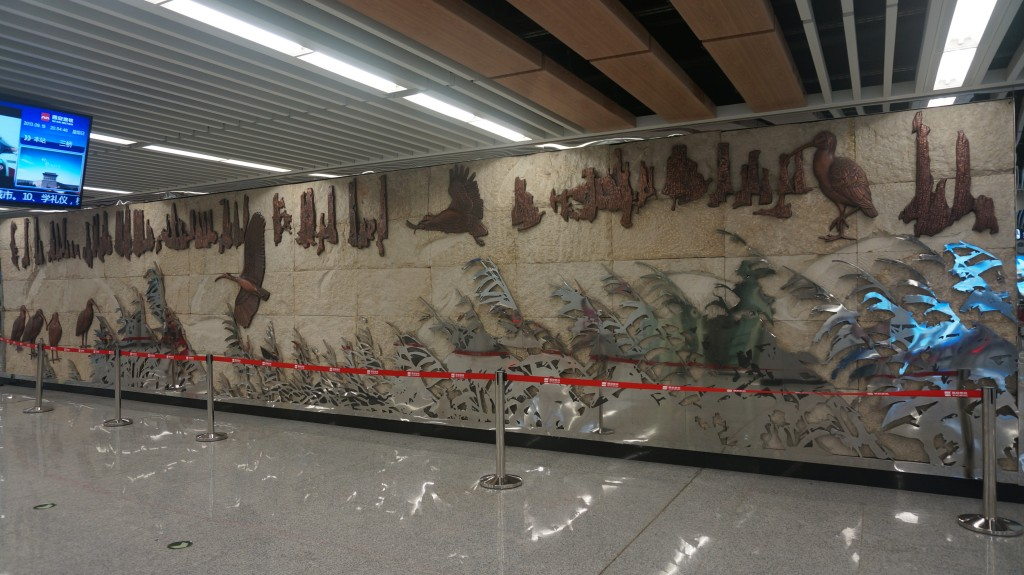 Sanqiao Station Art